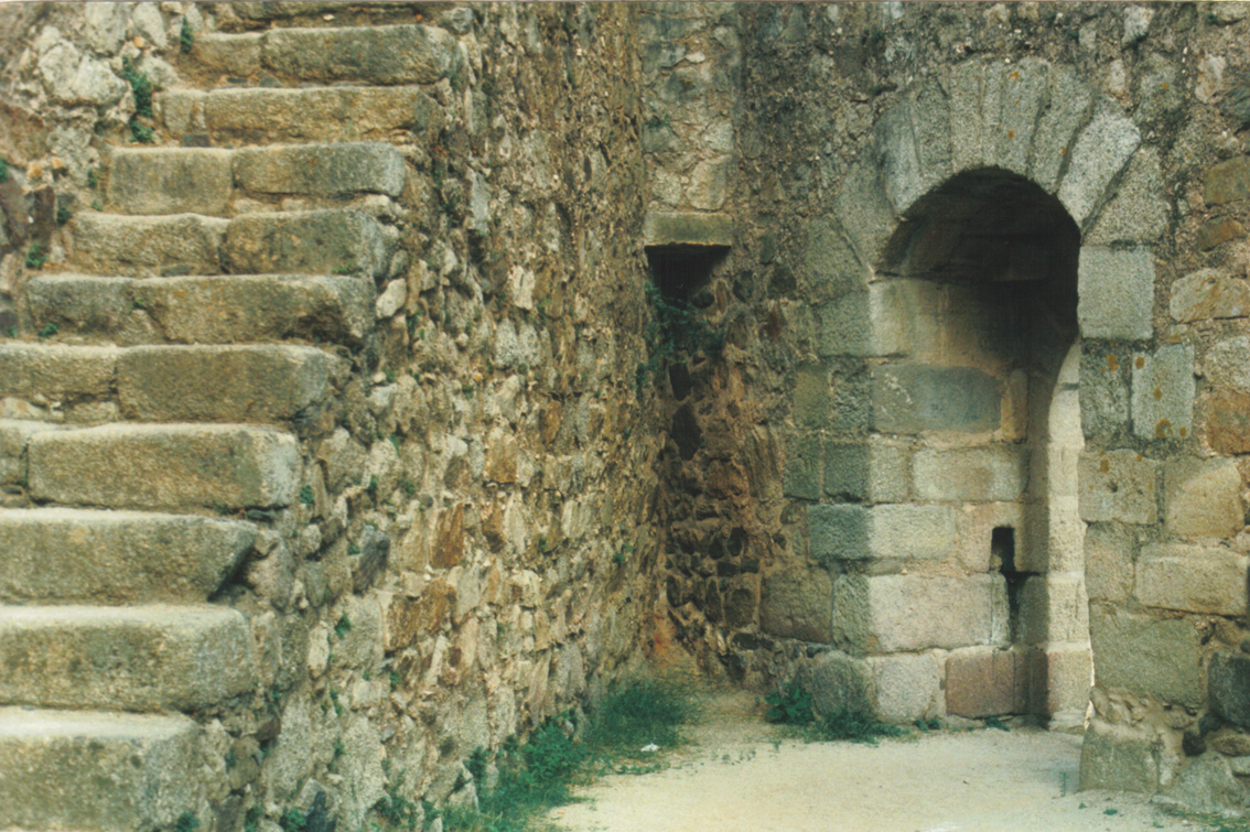 Almourol Castle in Vila Nova da Barquinha, Portugal: Entrance, view from the inside. Photographer: Lusitana Date: 2002